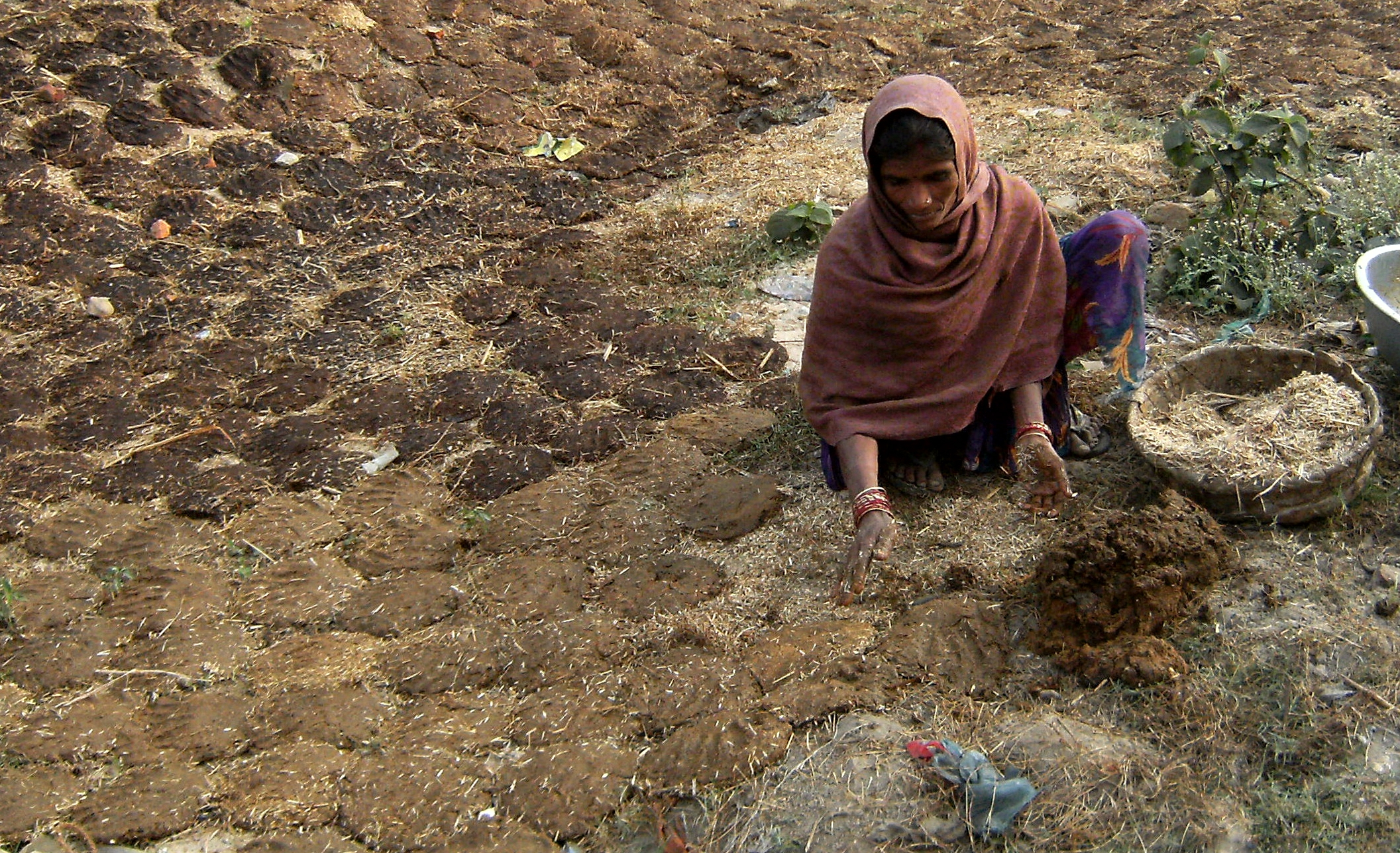 Komaya (cow dung) Location: Bihar India.